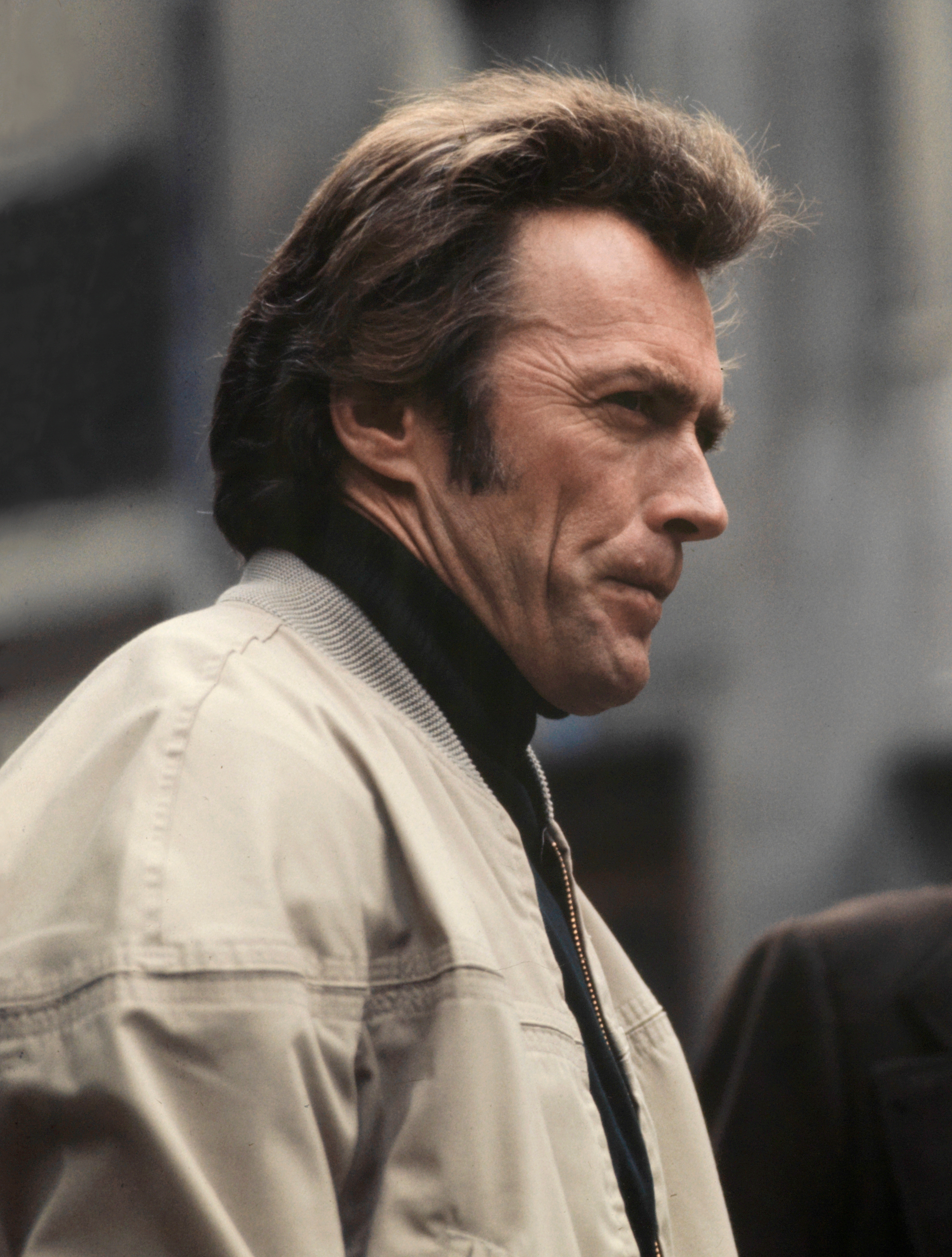 Film shoot with Clint Eastwood for "The Eiger Sanction" in Zurich, Switzerland